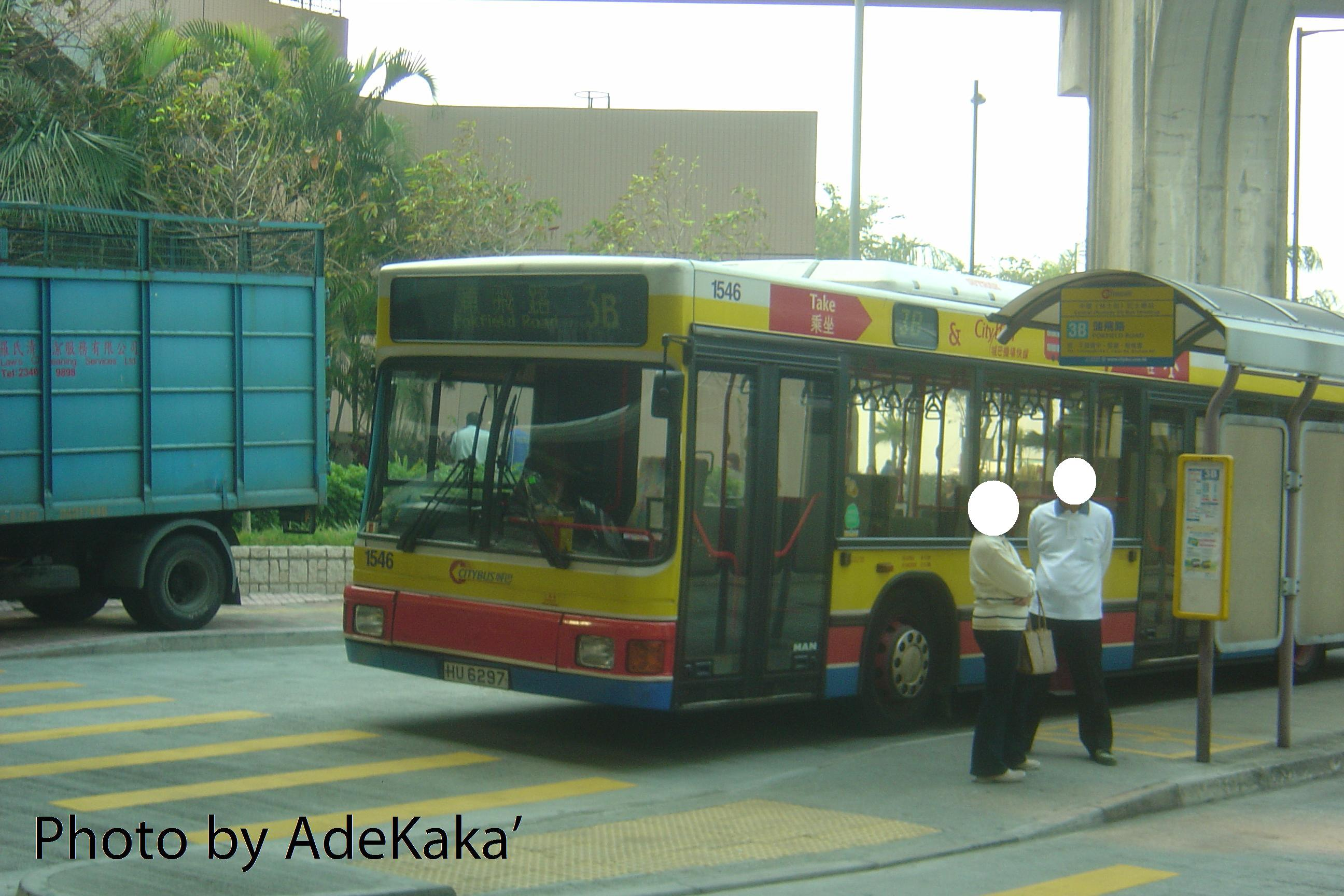 Rumsey Street Bus terminus